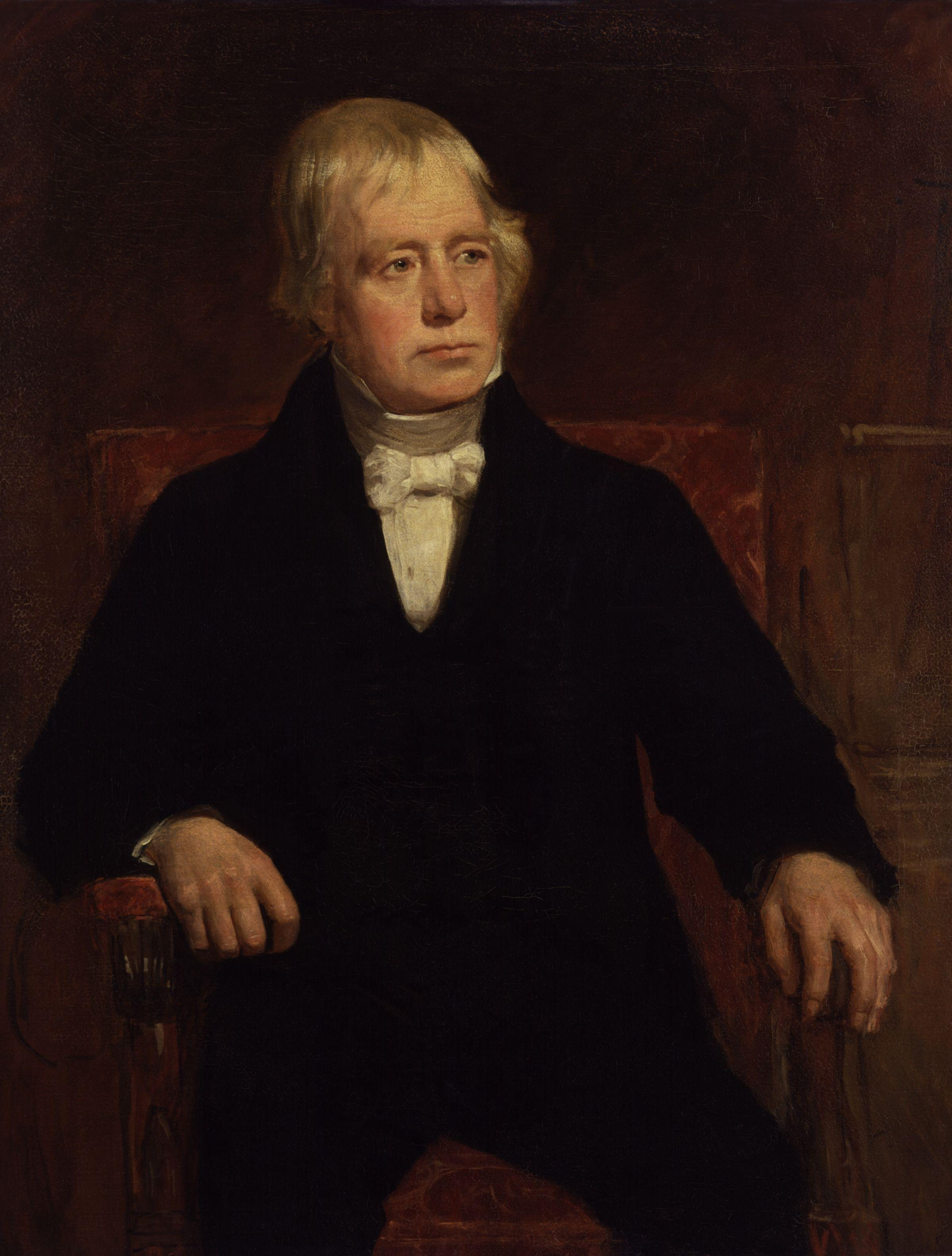 Sir Walter Scott, 1st Bt, by John Graham Gilbert (died 1856), given to the National Portrait Gallery, London in 1867. All images in this batch have been confirmed as author died before 1939 according to the official death date listed by the NPG.